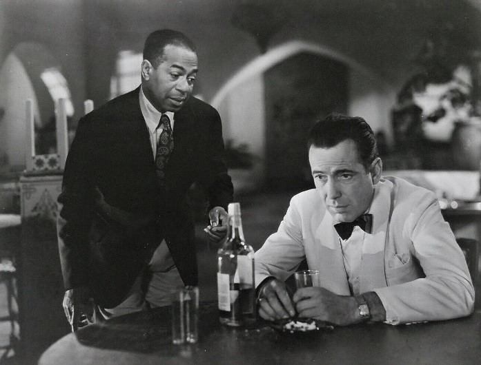 Dooley Wilson (left) & Humphrey Bogart in Casablanca - publicity still (cropped)